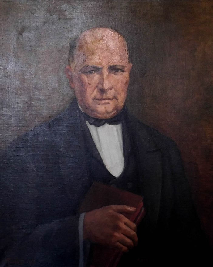 Panagiotis Stefanou